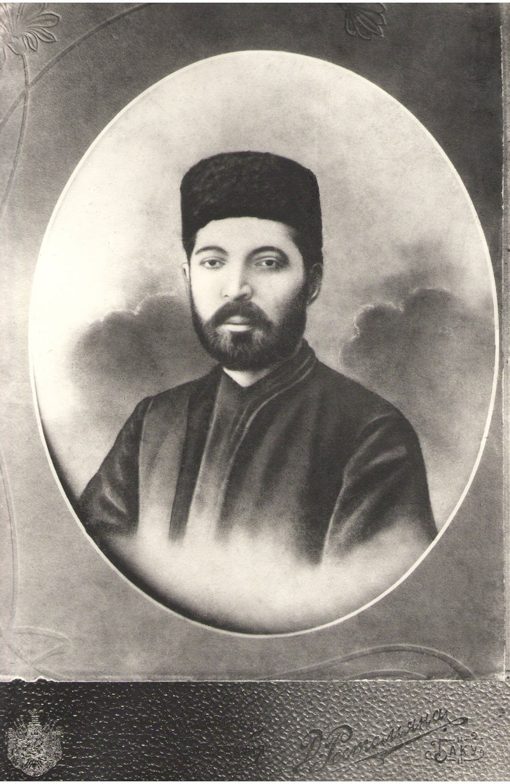 Salman Nerimanov